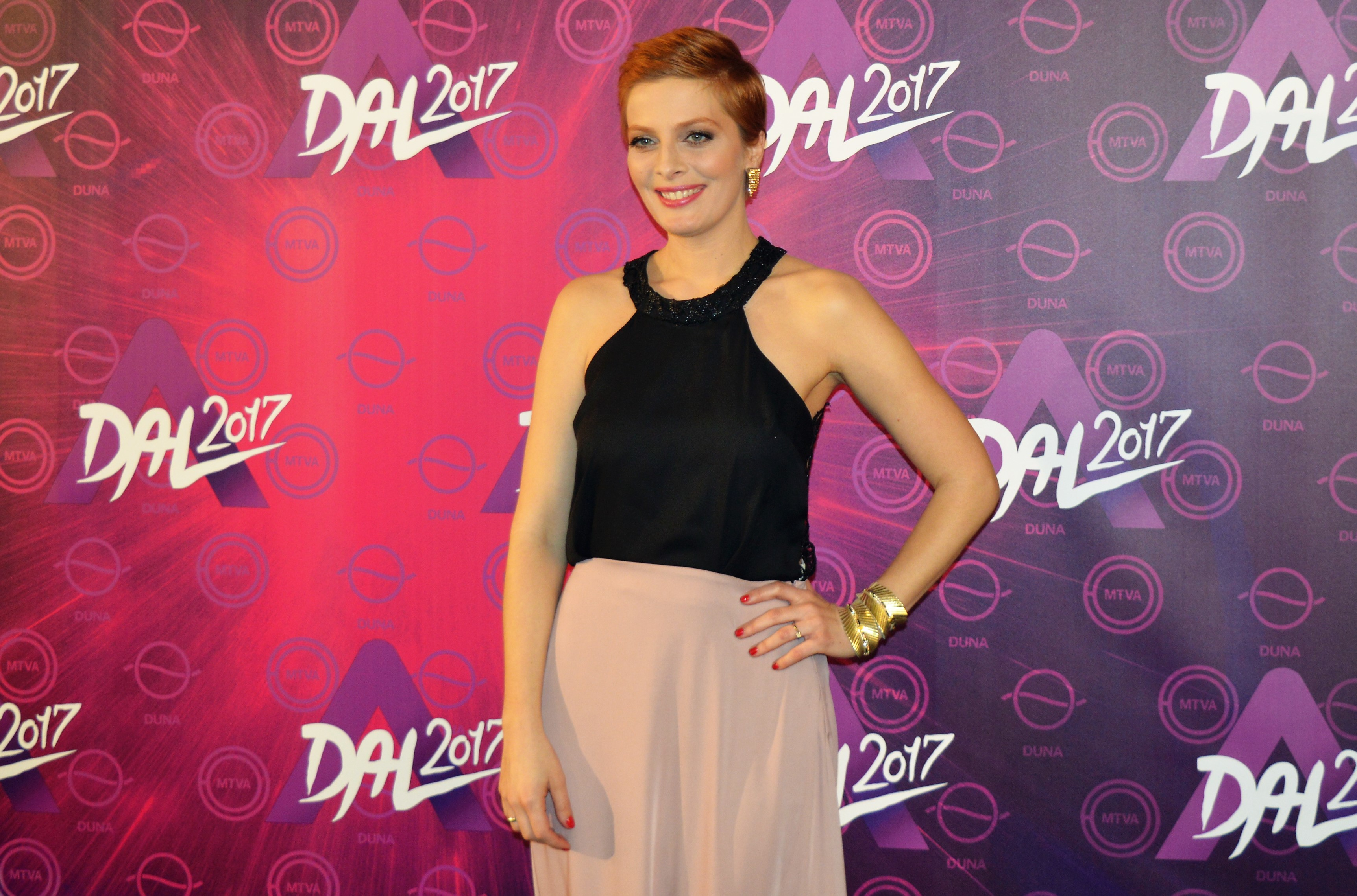 Csilla Tatár, host of A Dal 2017